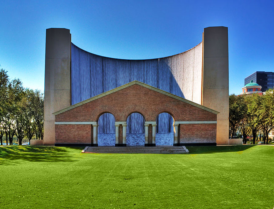 The Galleria area "Williams Waterwall" in Houston.